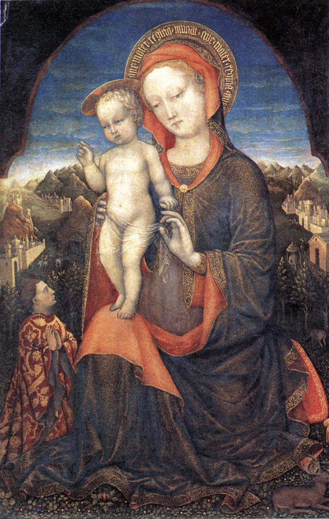 Modonna with Child adored